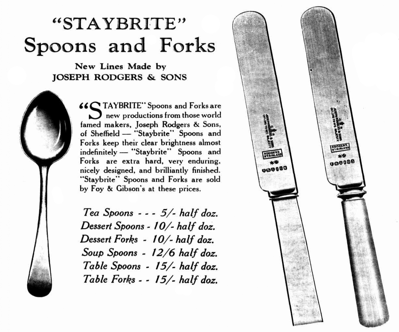 Advertisement of stainless cutlery on Table Talk dated on March 21st 1929. The maker was Joseph Rodgers & Sons in Sheffield. The cutlery was made of STAYBRITE, the stainless steel brand of Thomas Firth & Sons.